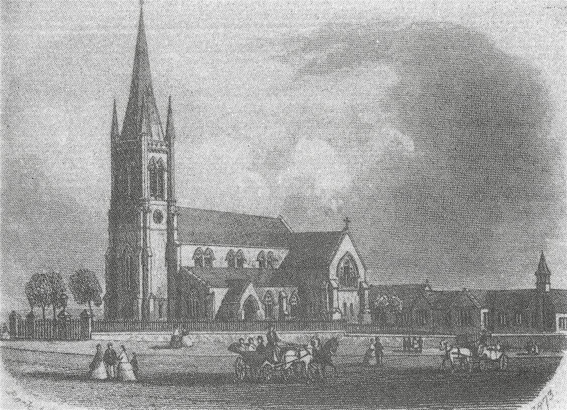 The former All Saints Church, Brightside, Sheffield, South Yorkshire, England. It was funded by industrialist John Brown, and built by architects Flockton and Abbott 1866-1869. It was demolished in 1980 and replaced by St Peter's Church.